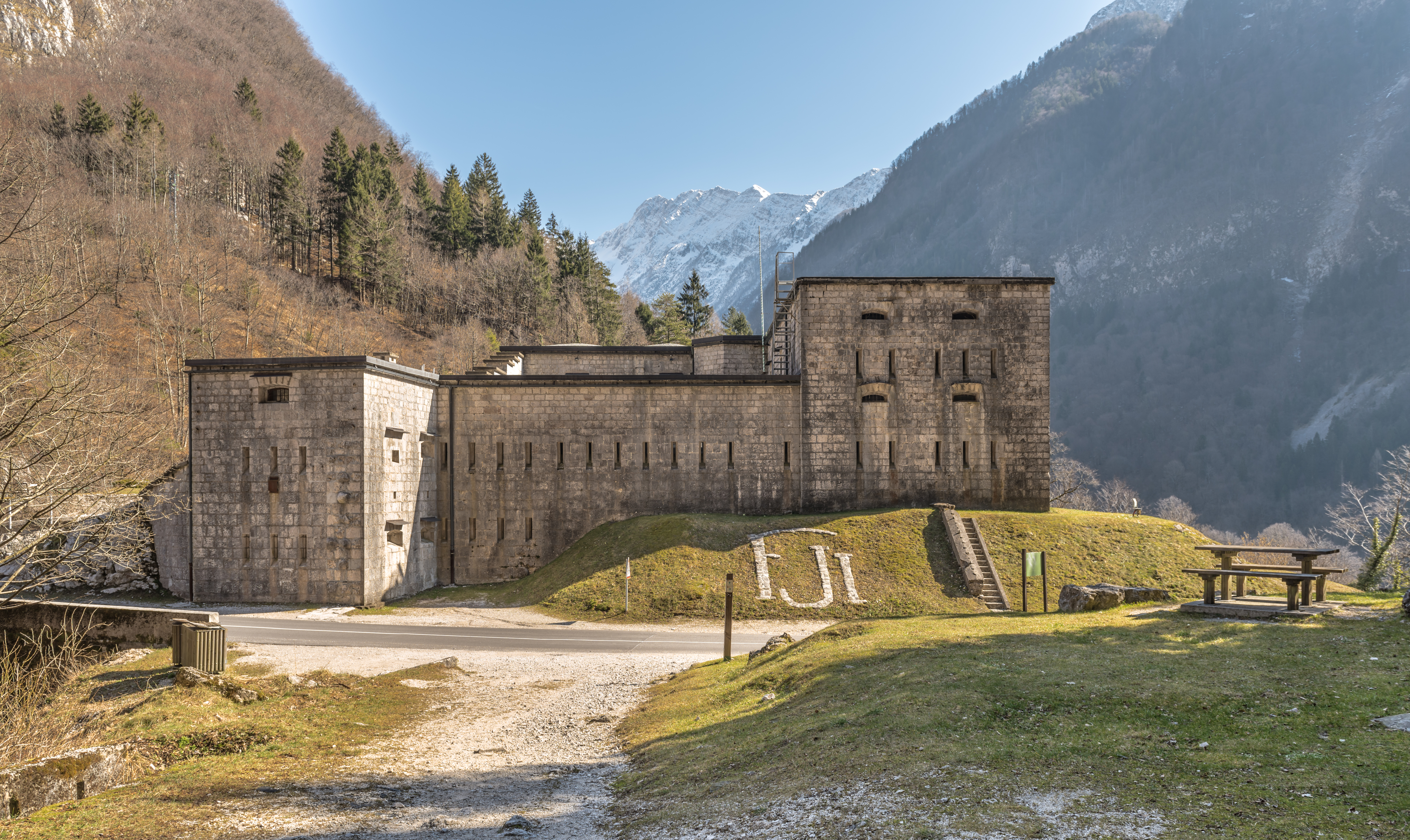 Fort Kluže, bastion of the First Worldwar, Bovec, Slovenia, EU